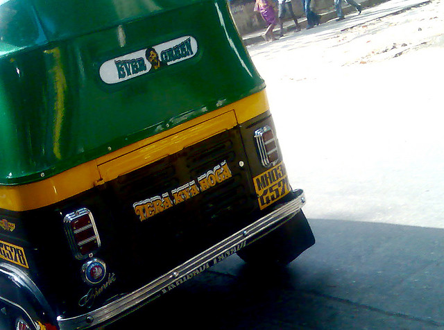 A dialogue of Gabbar Singh (Tera Kya Hoga) from Sholay on the back of auto rickshaw in India